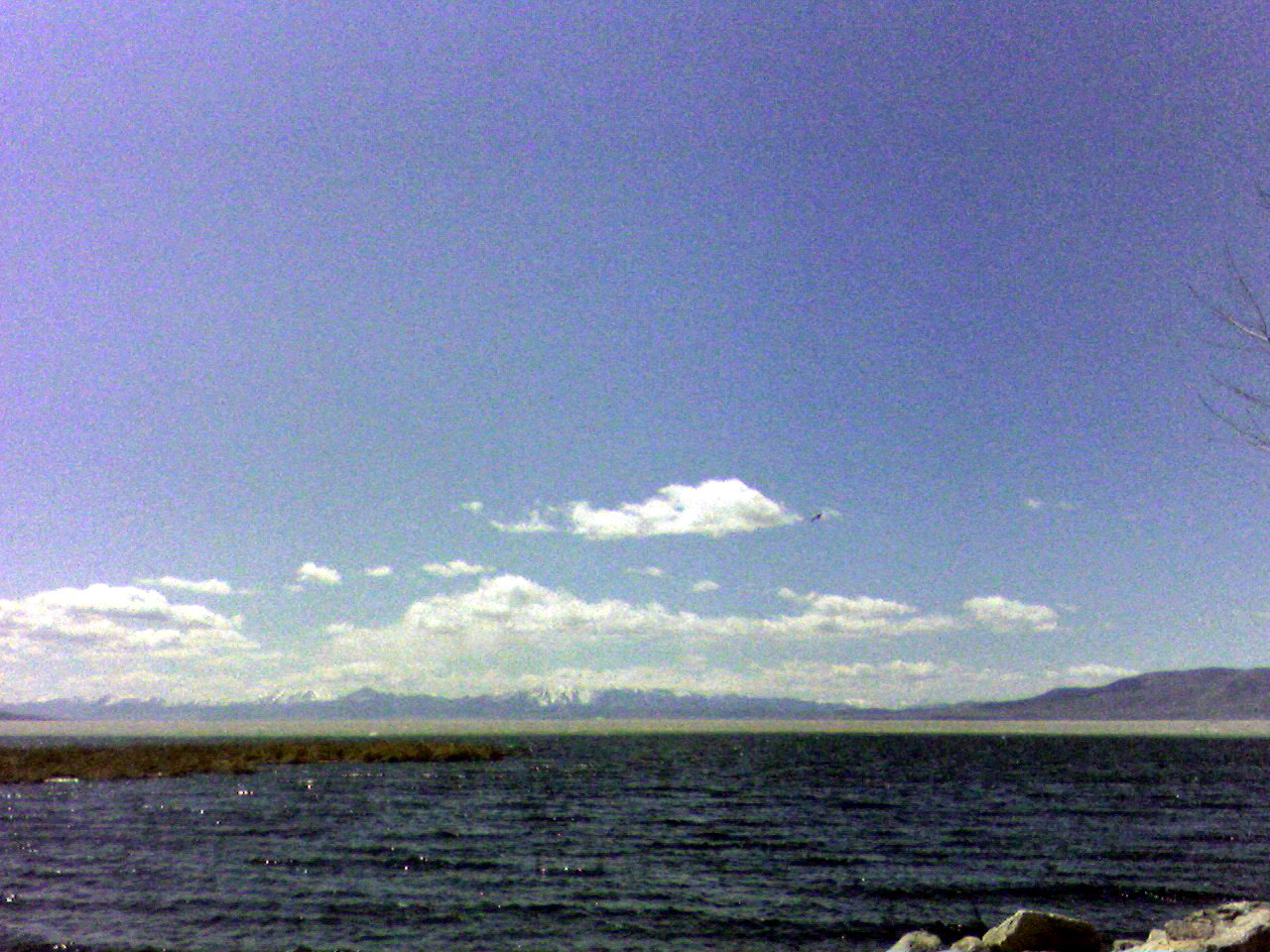 Utah Lake State Park by David Jolley.